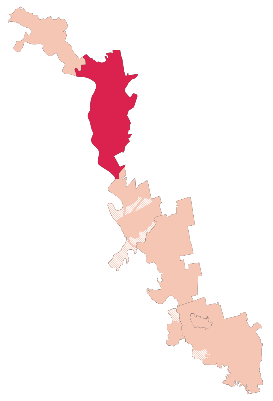 Raions of Transnistria: Ribnita